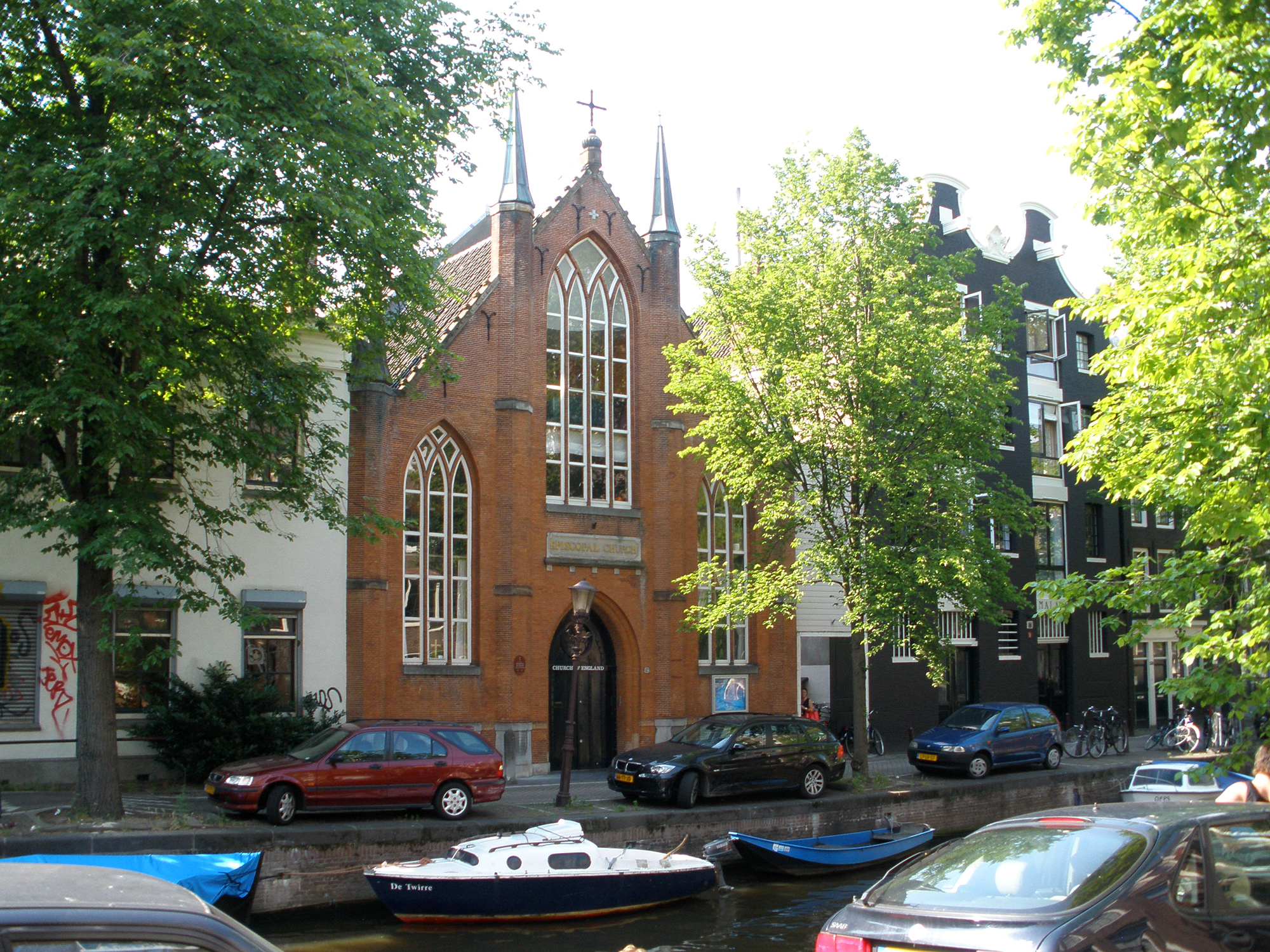 The English Episcopal Church (Christ Church) on the Groenburgwal canal in Amsterdam, designed by Pieter de Keyser. This former cloth-hall was once part of the Staalhof complex. Here Rembrandt's De Staalmeesters hung until 1771.